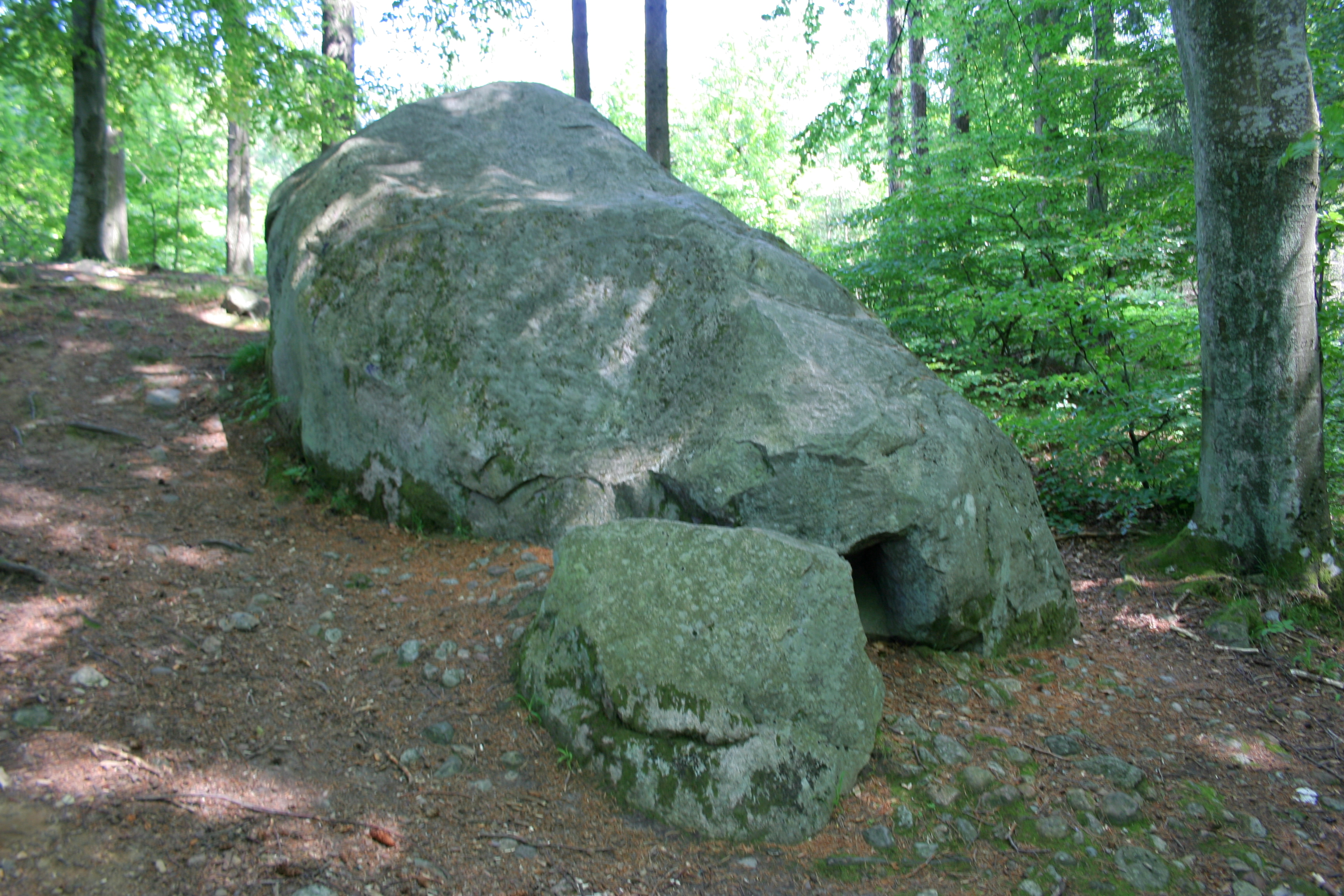 Glacial erratic "Diabelski Kamień" in Puszcza Darżlubska.